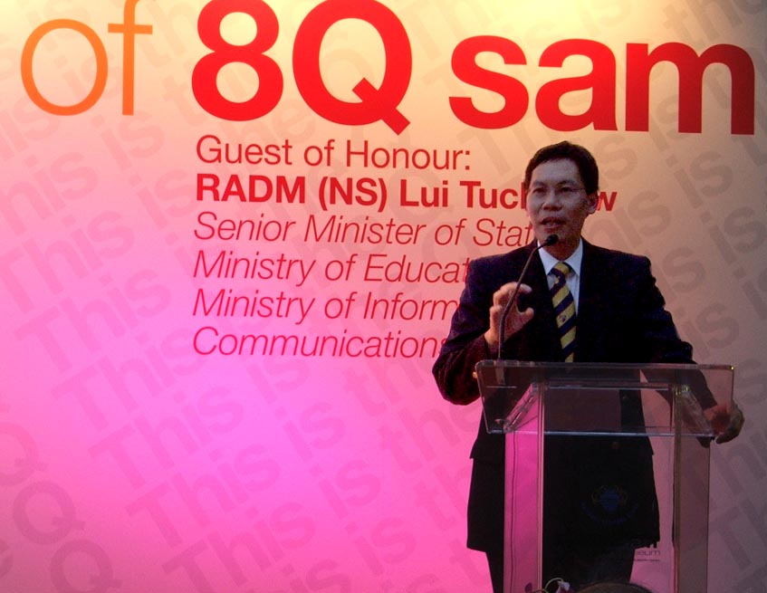 Minister delivering his speech at the official opening of 8Q SAM on Queen Street.